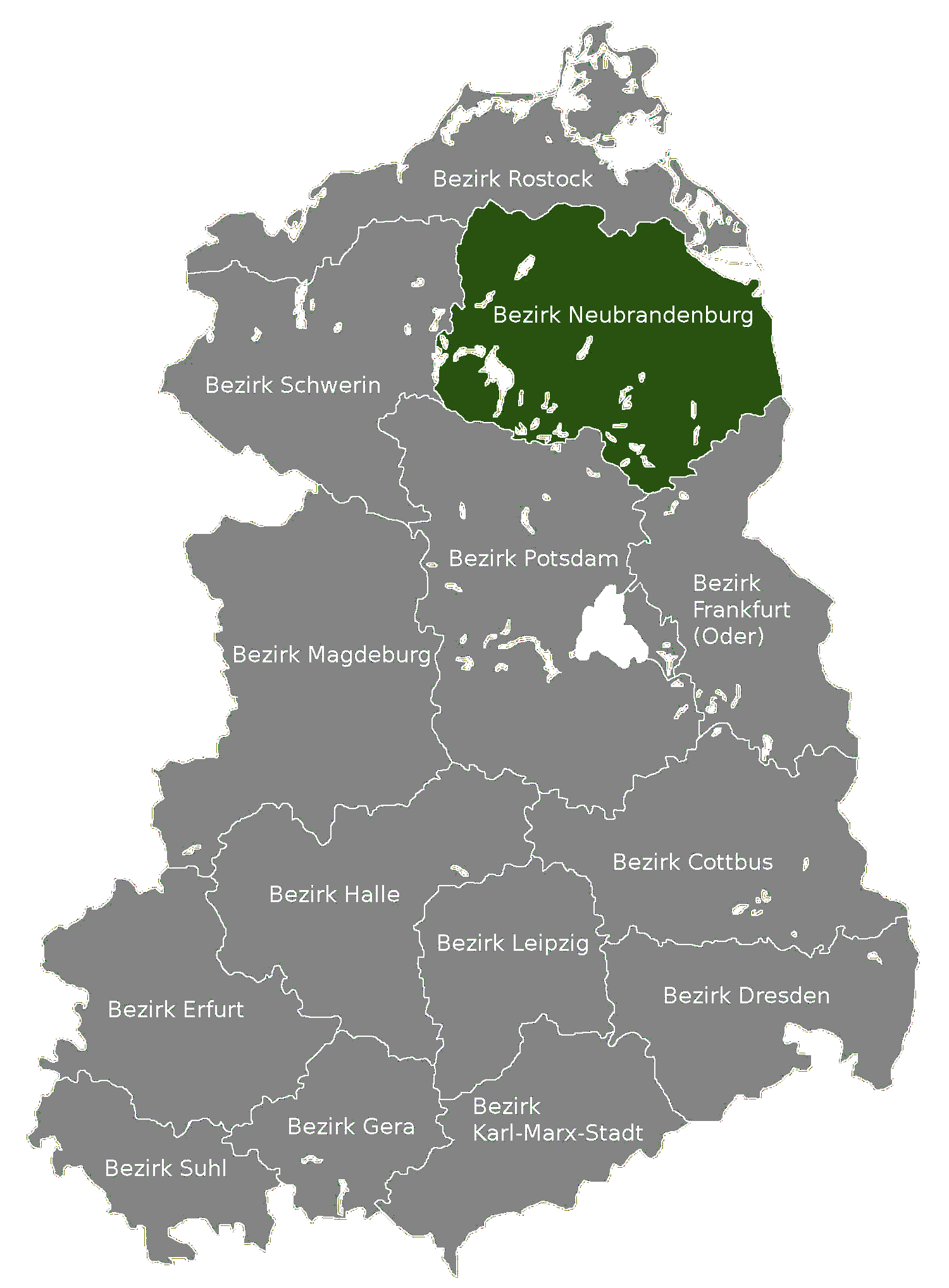 Map based on German Wikipedia